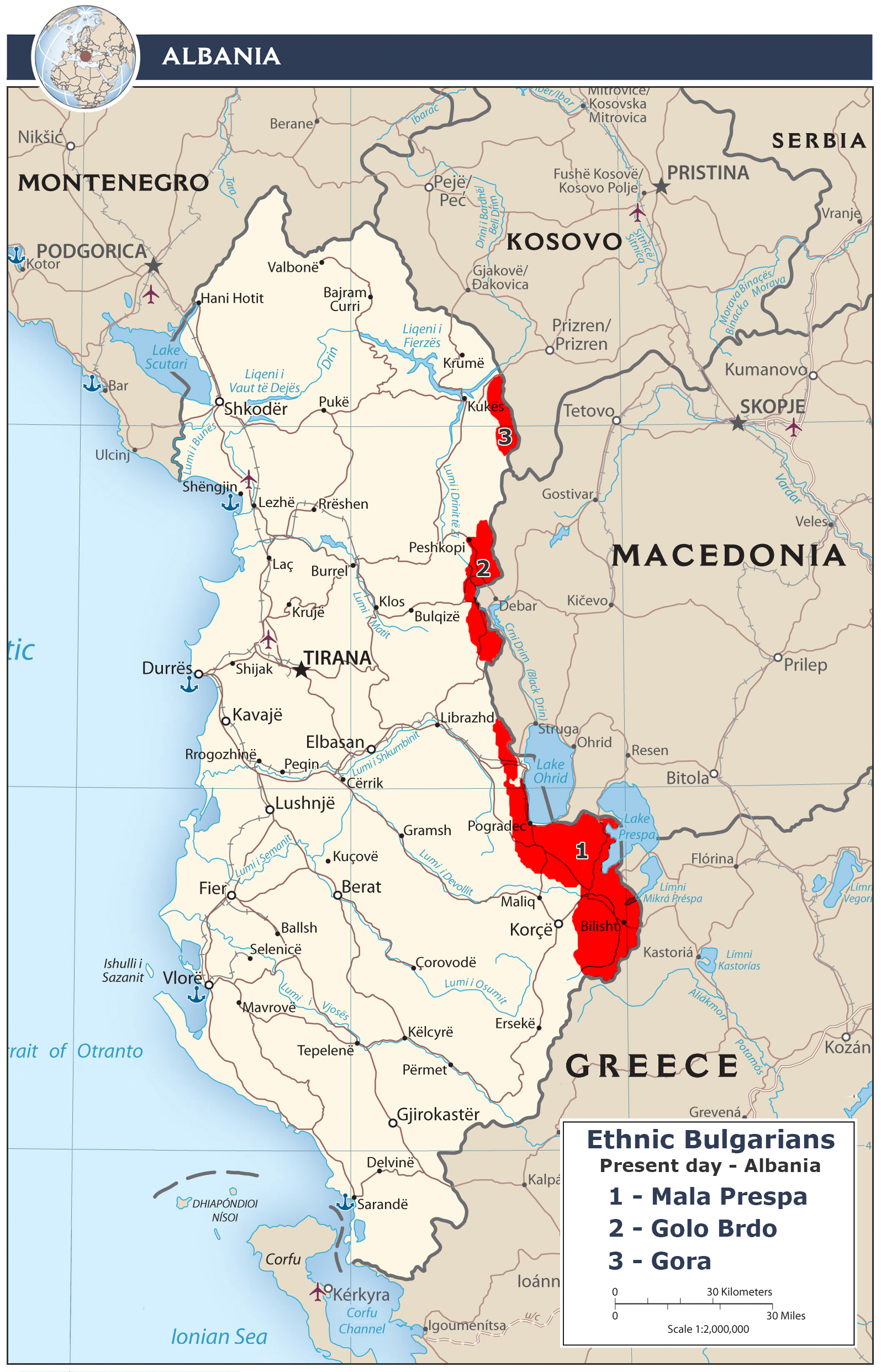 Ethnic Bulgarians In Albania